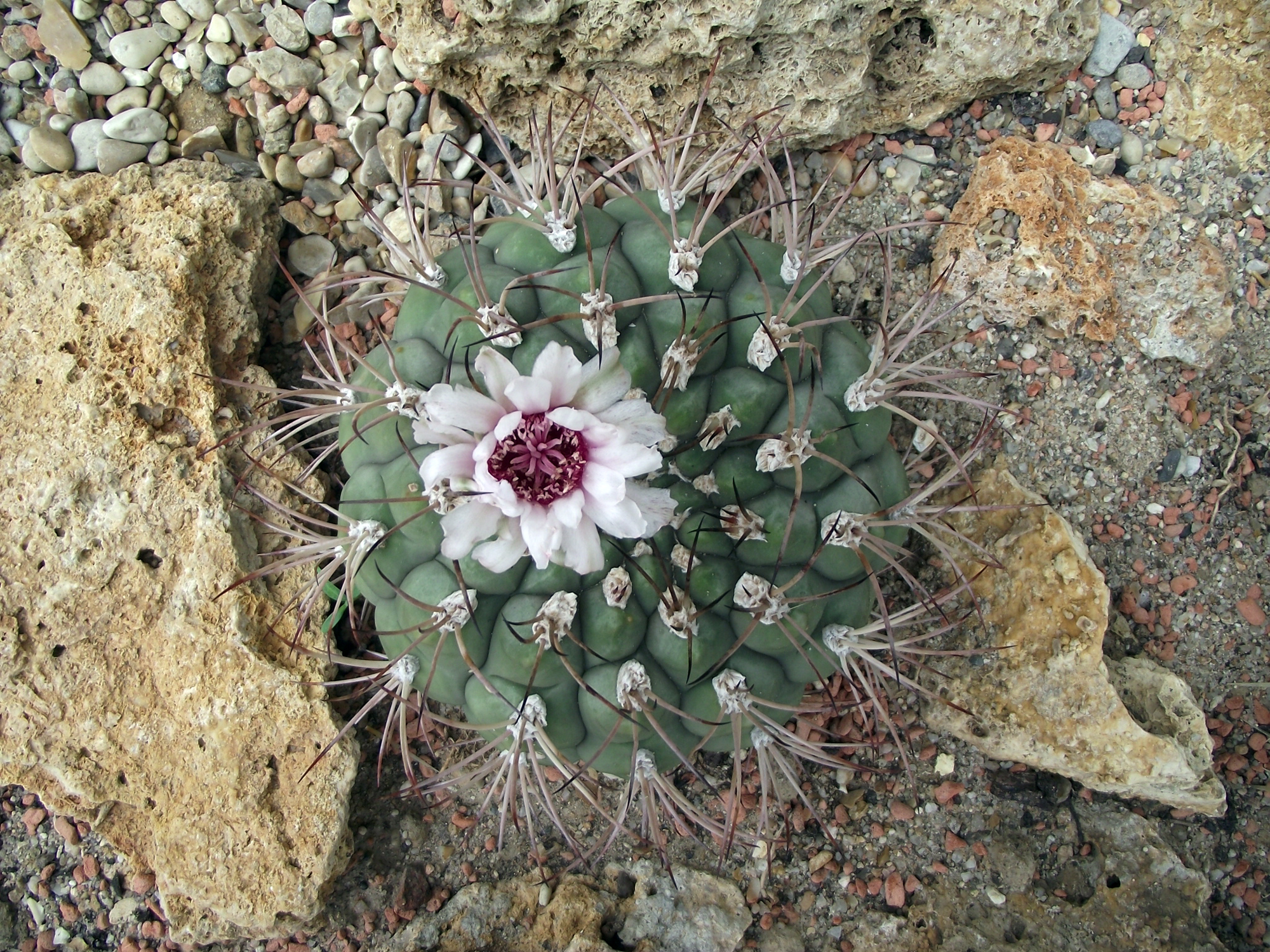 Gymnocalycium zegarrae